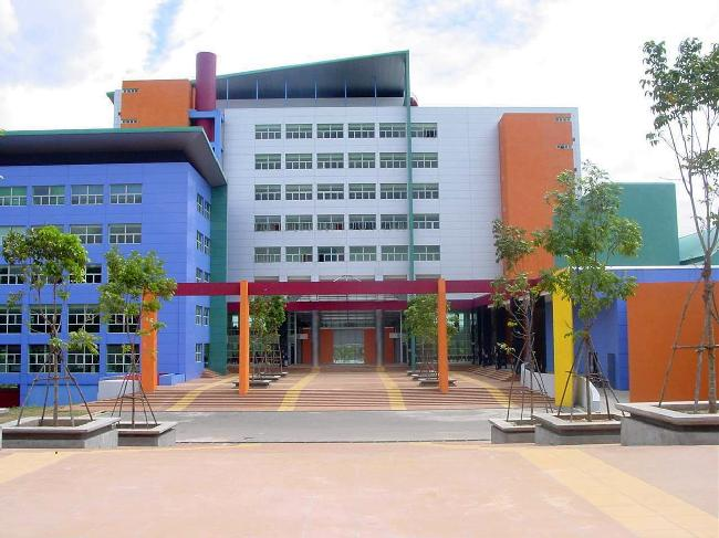 The main campus of Sri Lanka Institute of Information Technology in Malabe.